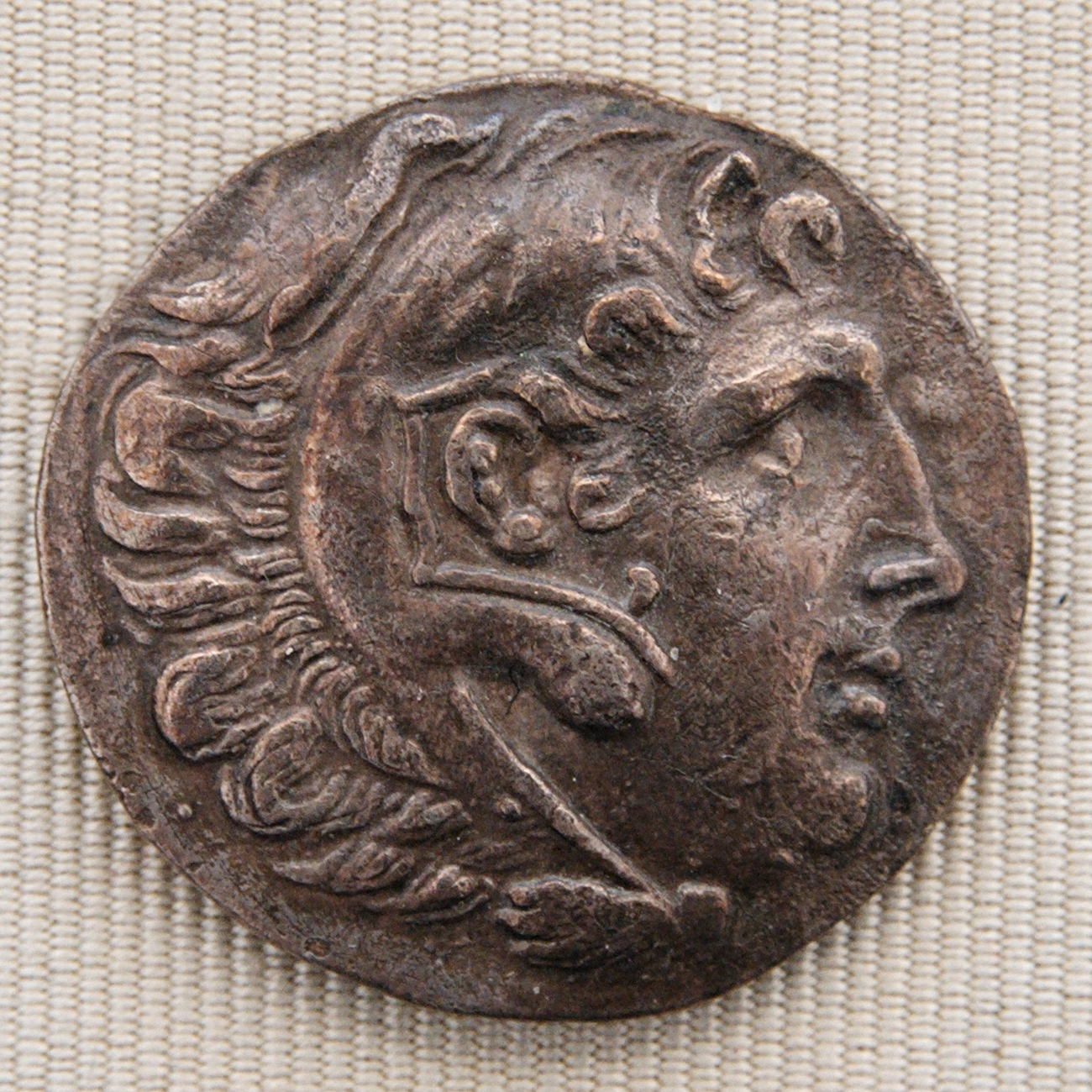 Silver tetradrachm issued by Erythrai ca. 200–180 BC, obverse: Alexander the Great as Herakles wearing the lion skin.